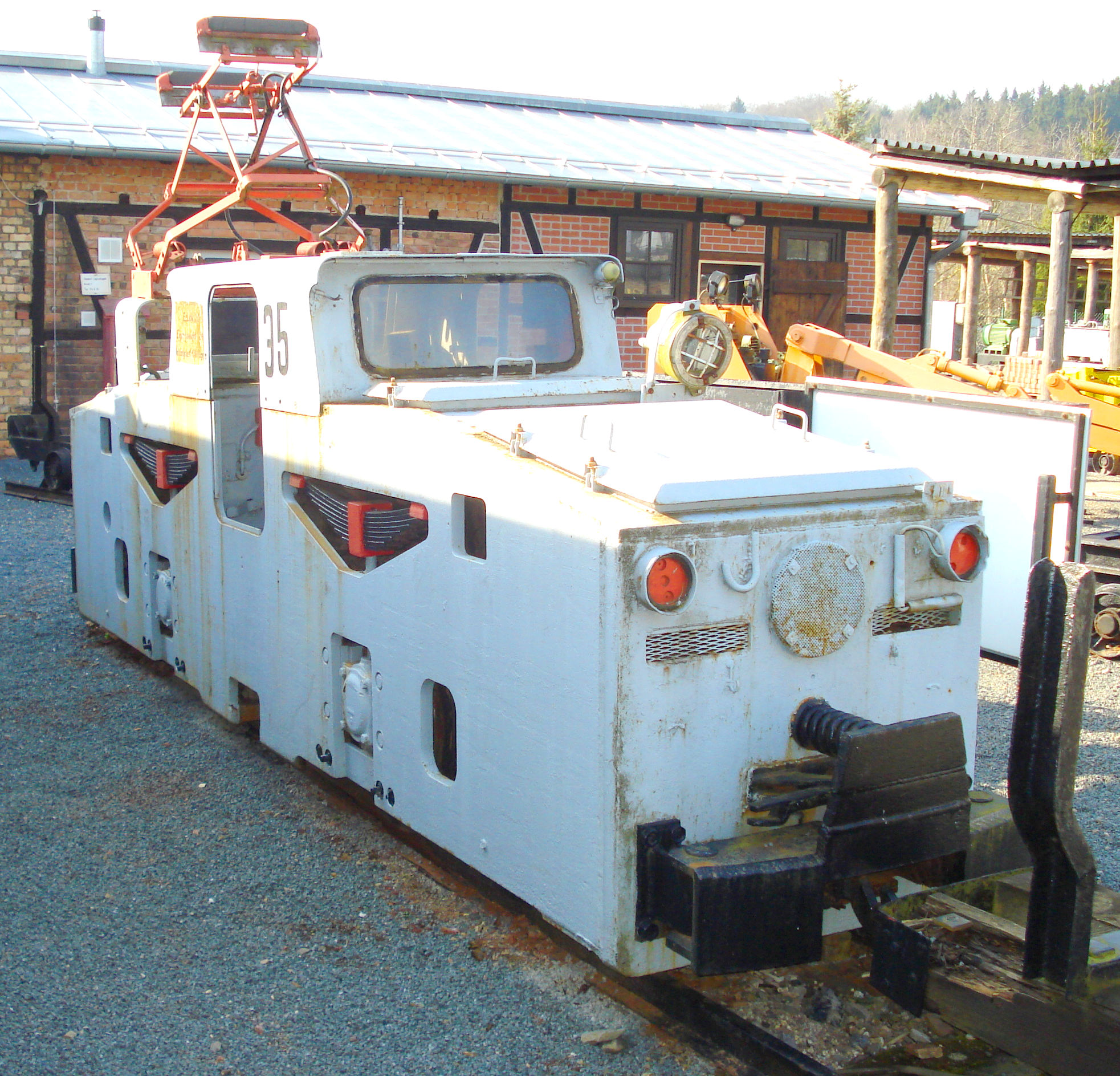 mining locomotive type EL 5/01, built by VEB Lokomotivbau Elektrotechnische Werke Hennigsdorf.